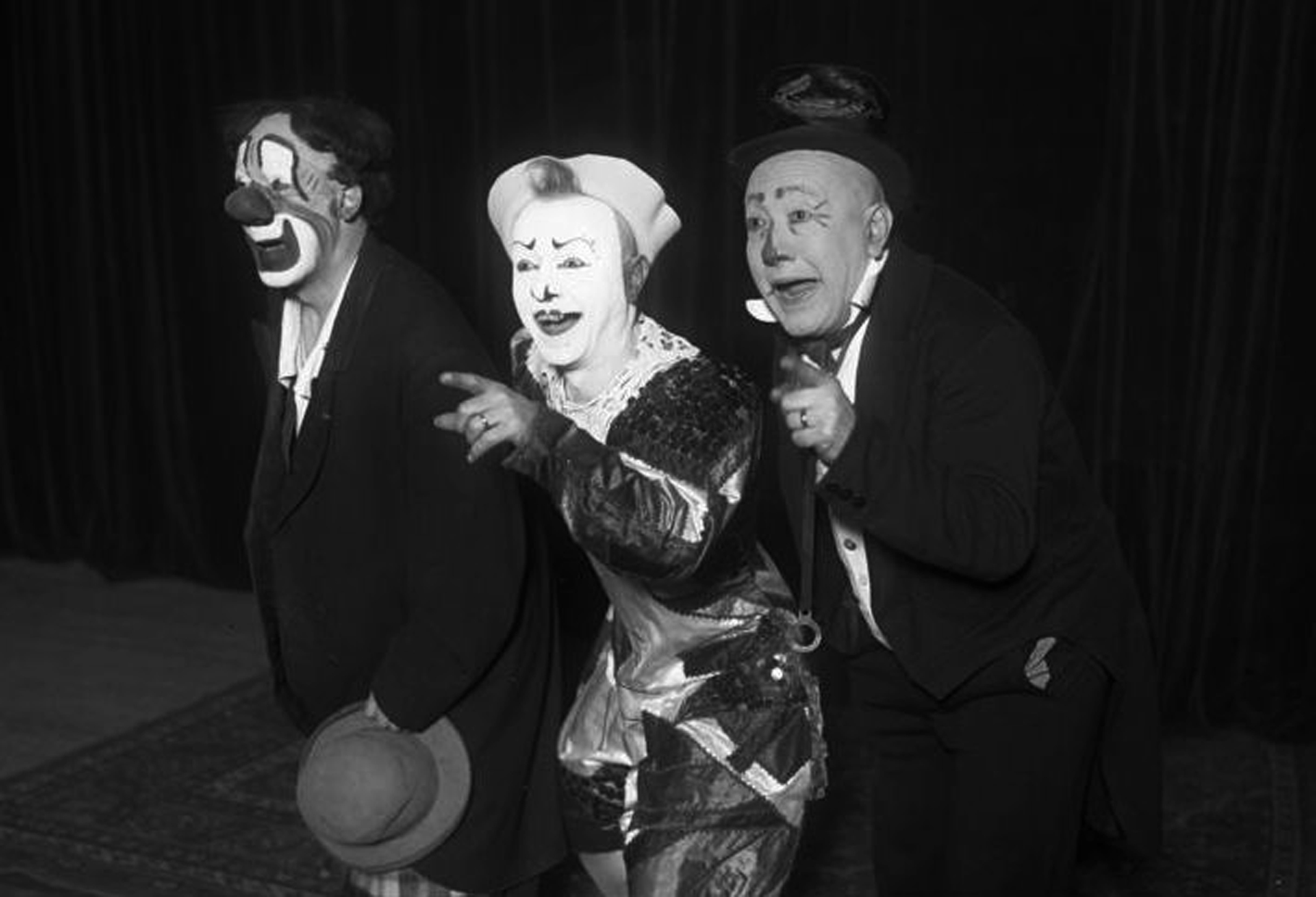 Title: Clowns-Trio "Die Fratellinis" People in the image: Fratellini: Clowns, Additional information: v.L.n.R. Albert, François, Paul (K. Hoche, T. Meissner, B.F. Sinhuber: Die grossen Clowns; Athenäum 1982) Factual corrections and alternative descriptions are encouraged separately from the original description. Additionally errors can be reported at this page to inform the Bundesarchiv. Original historic description: Die drei Fratellinis, die berühmtesten Clowns der Welt ! Die drei Fratellinis in einer ihrer lustigsten Szenen und Verkleidung.